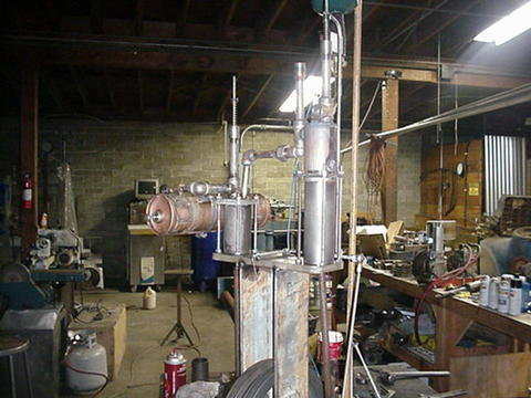 I made this Brayton cycle engine from historical drawings